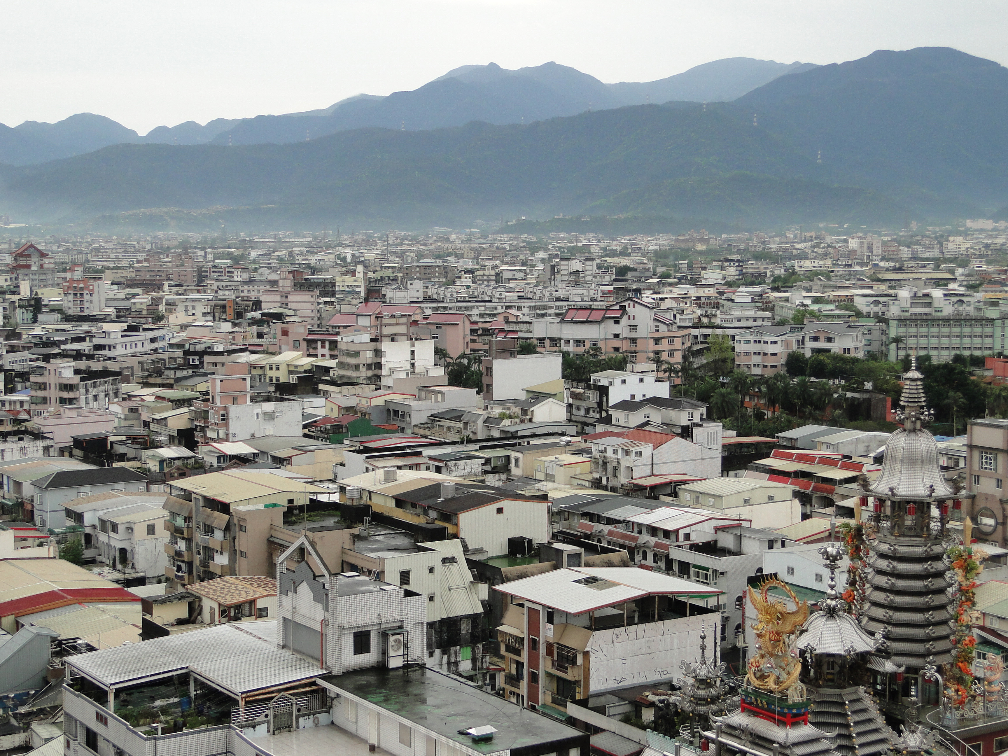 Luodong Township, Yilan County, Taiwan